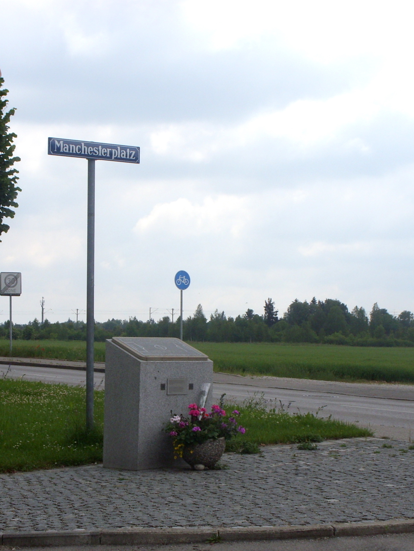 Memorial stone at the Emplstraße / at the Manchesterplatz in Munich in remembrance of the Munich air disaster 06. Februrary 1958